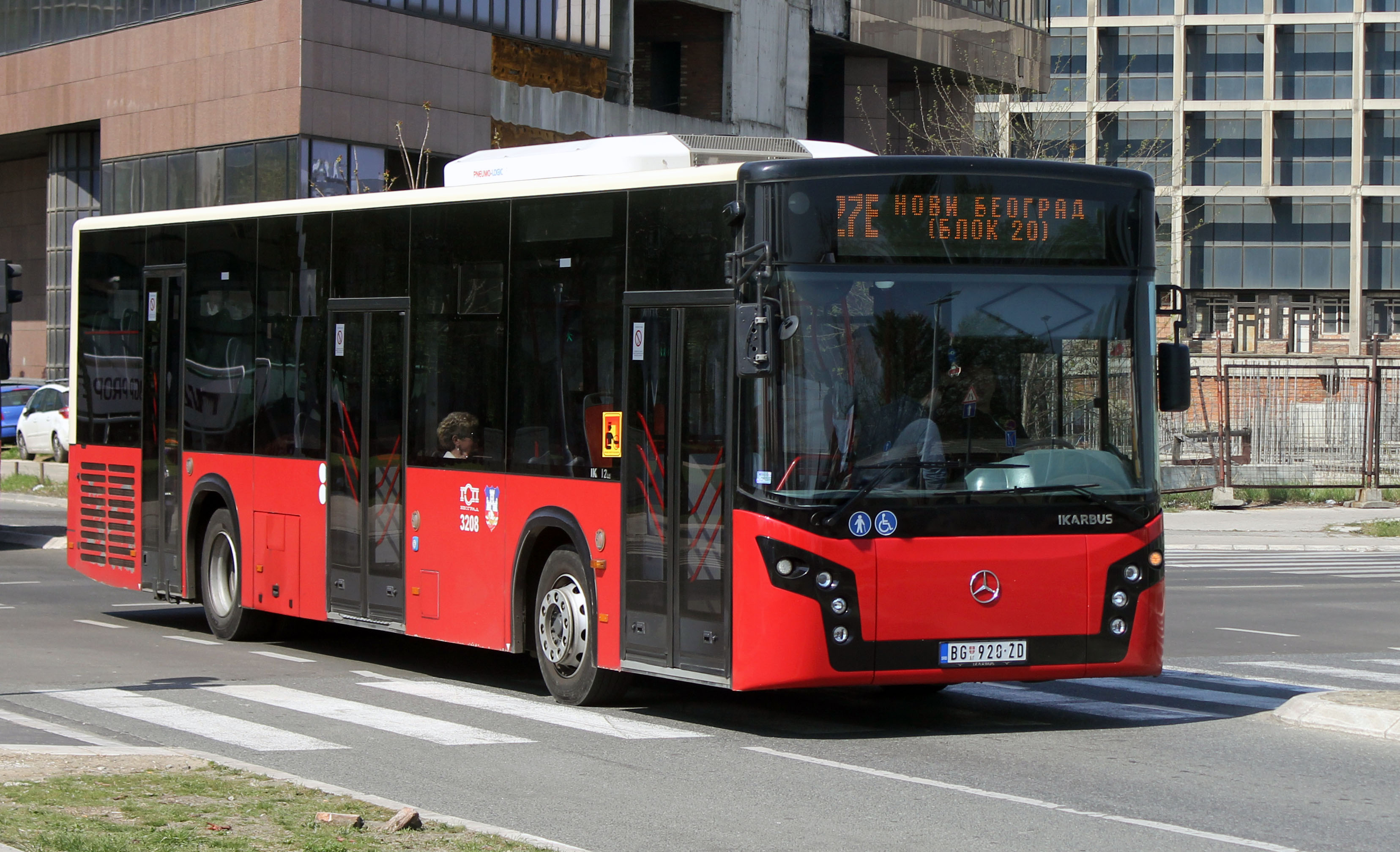 Ikarbus IK-112LE city bus of GSP Belgrade city public company on line No.27Е.